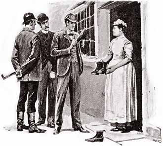 Sherlock Holmes in "The Boscombe Valley Mystery", which appeared in The Strand Magazine in October, 1891. Original caption was "THE MAID SHOWED US THE BOOTS."